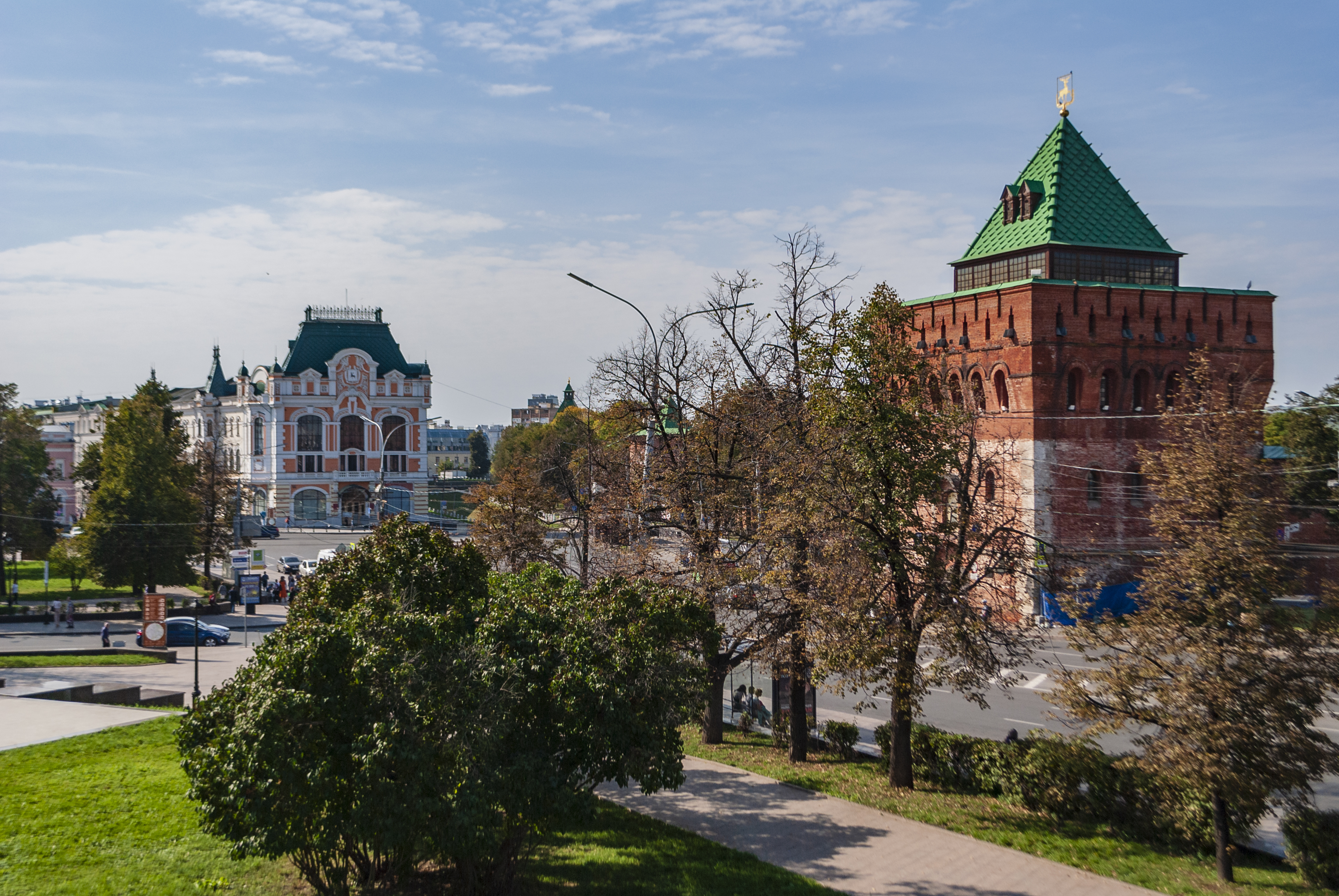 Minin and Pozharsky Square in Nizhny Novgorod